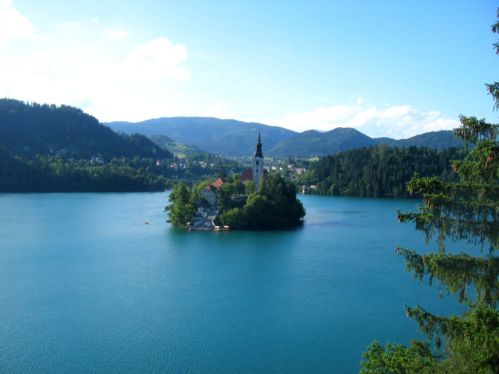 Bled island, Slovenia